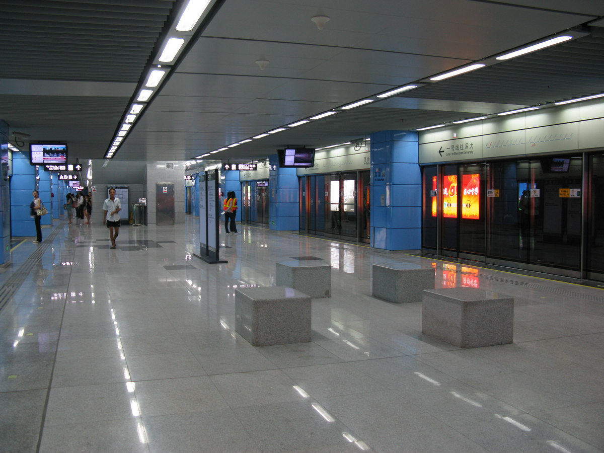 Line 1 Platform of Hi-Tech Park Station, Shenzhen Metro, view towards Shenzhen University Station